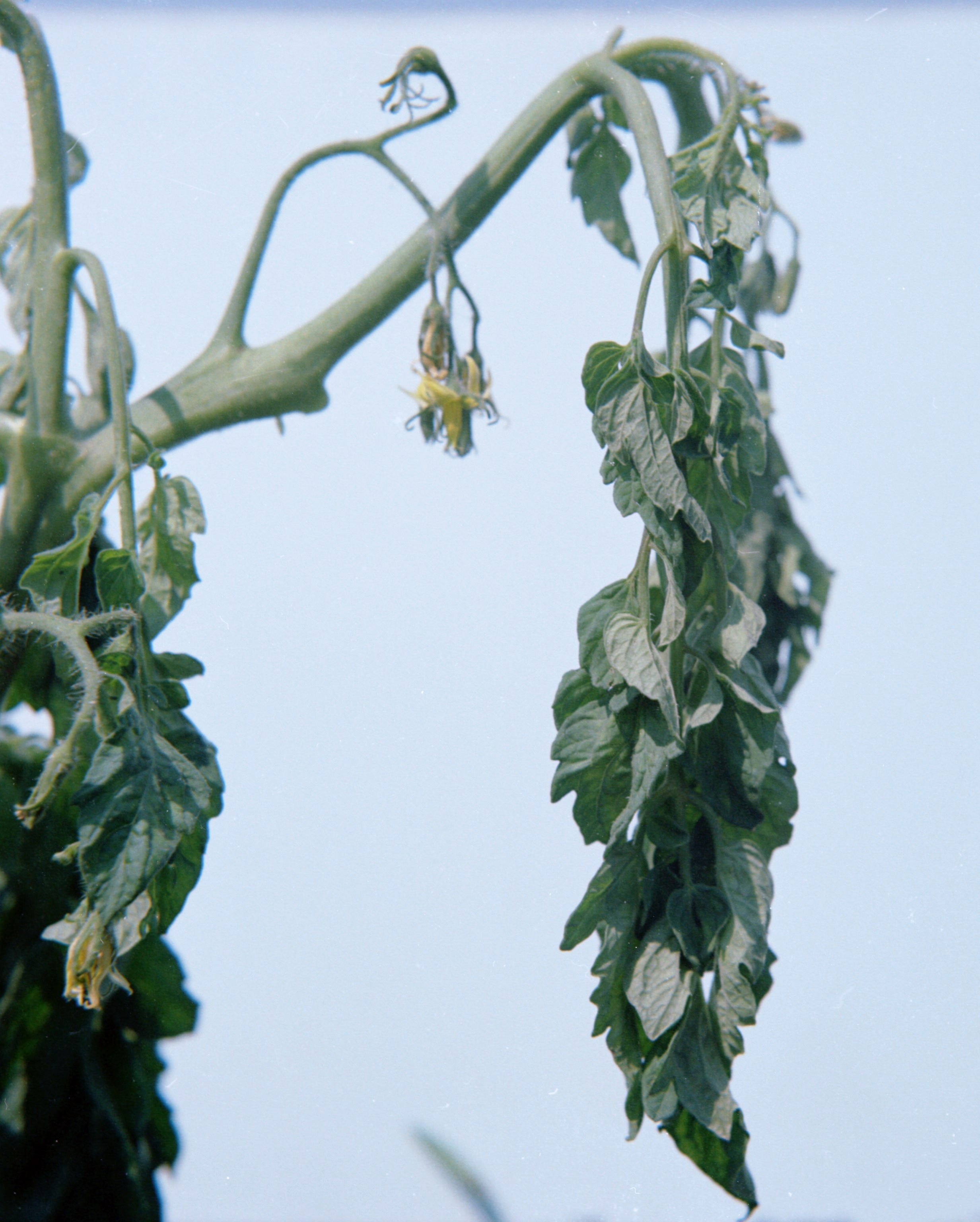 Photo of tomato plant with Ralstonia wilt symptoms